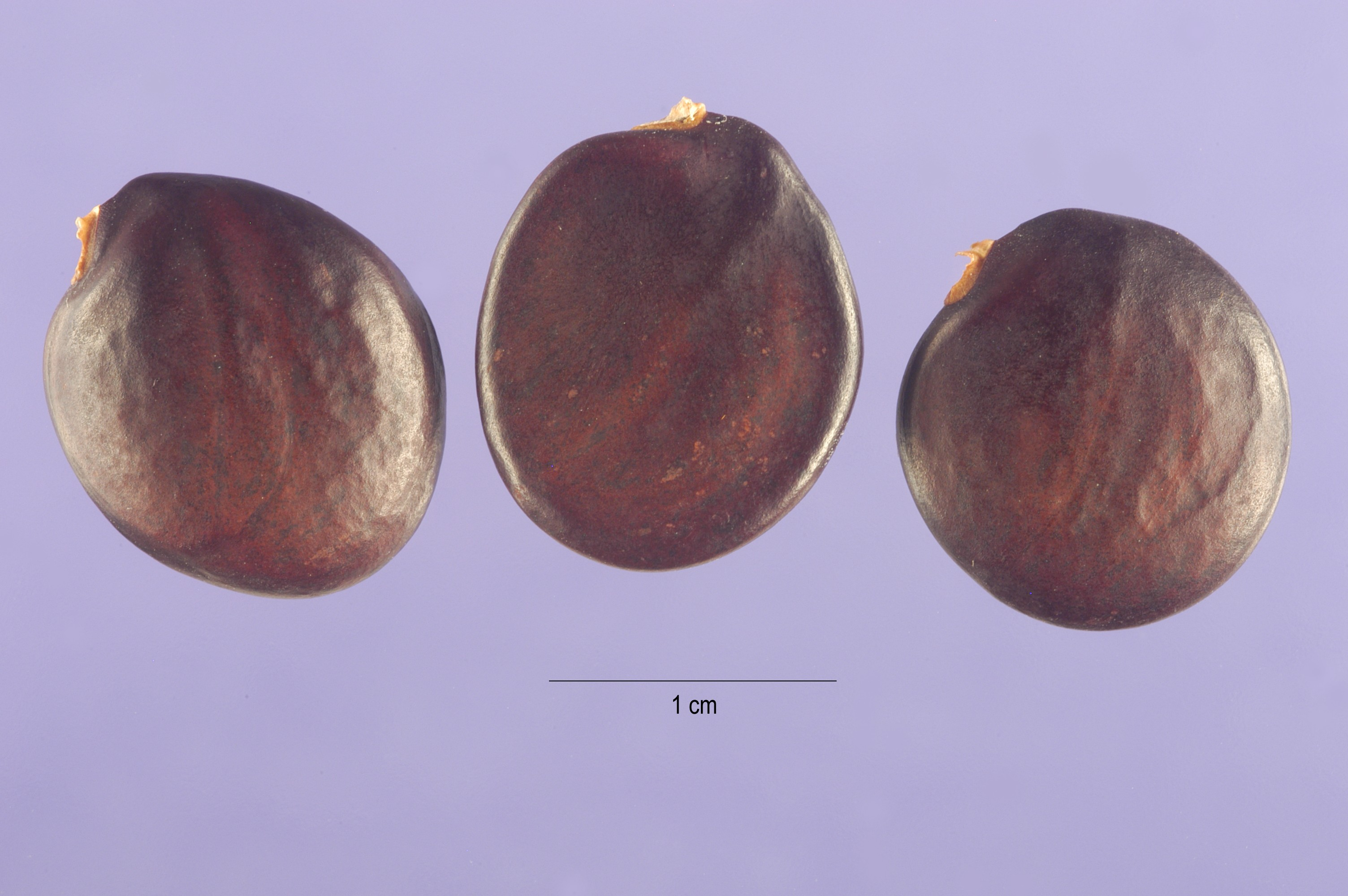 Wisteria sinensis (Sims) DC , seeds.